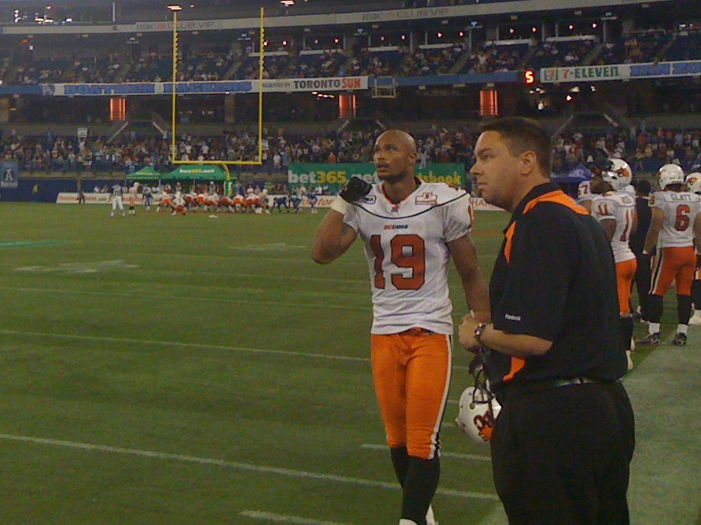 Paris Jackson (19) of the BC Lions watches the videoboard as teammate Sean Whyte kicks the go-ahead field goal late in a Canadian football game against the Toronto Argonauts at the Rogers Centre, 14 August 2009.